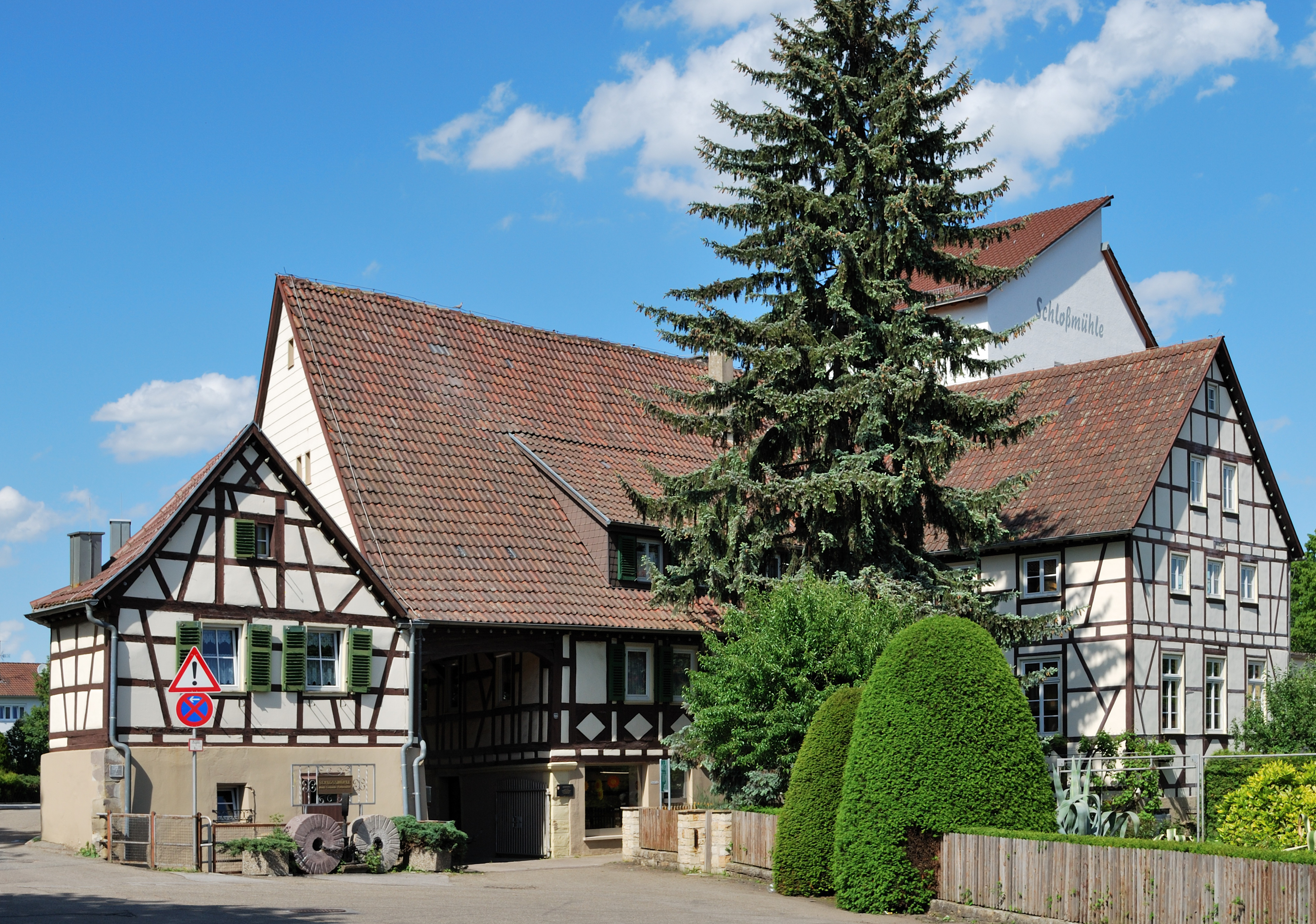 Schloßmühle (castle mill) in Ditzingen, Baden-Württemberg, Germany. The mill was first mentionned in the year 1350 and it is named 'Schloßmühle' since 1524. It was originally drived with three water wheels, today with the Ossberger turbine. The timber famed building from the 18th century was renovated in the years 1906 and 1977.